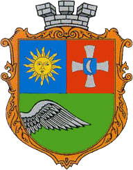 Coat of Arms of Haisyn (Vinnitsa Oblast Ukraine)